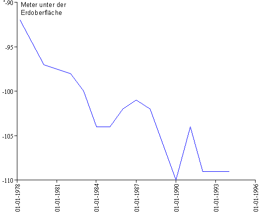 Water table of the Ogallala Aquifer near Seward, Kansas, USA